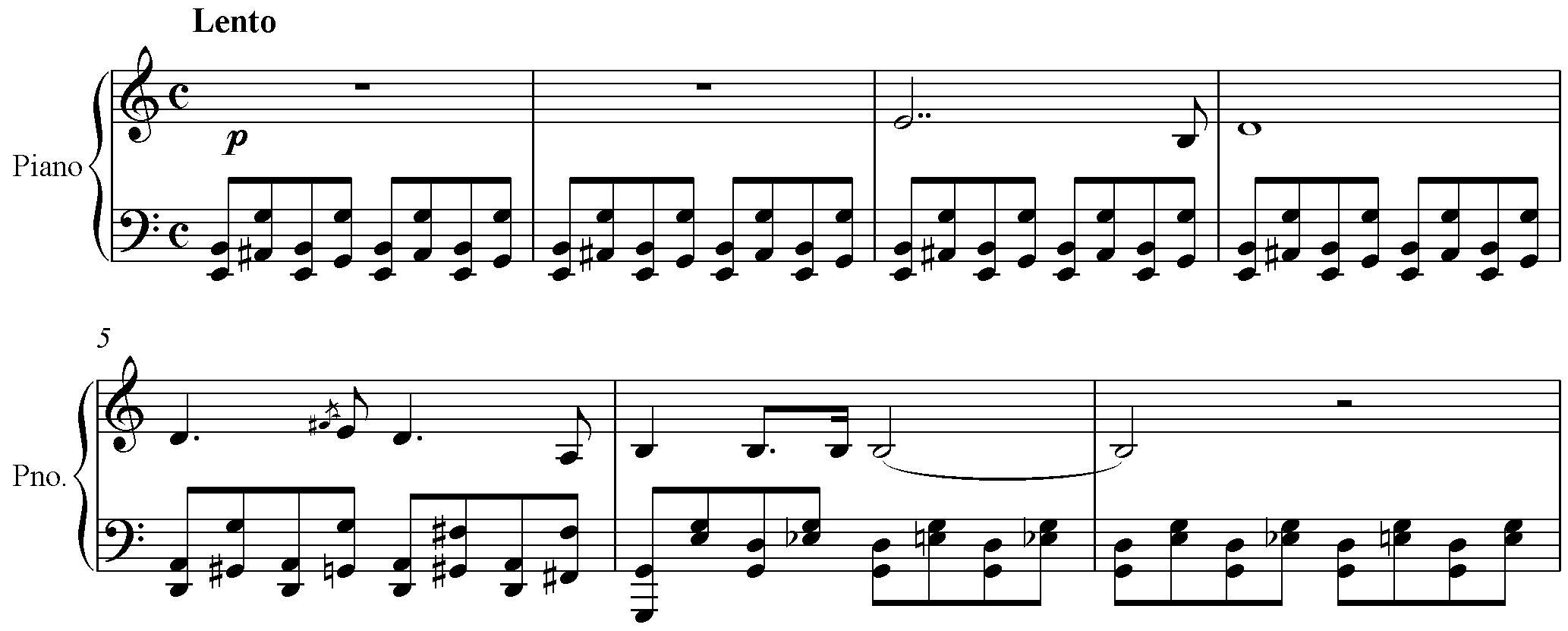 7 first bars of Chopins prelude 2 op. 28